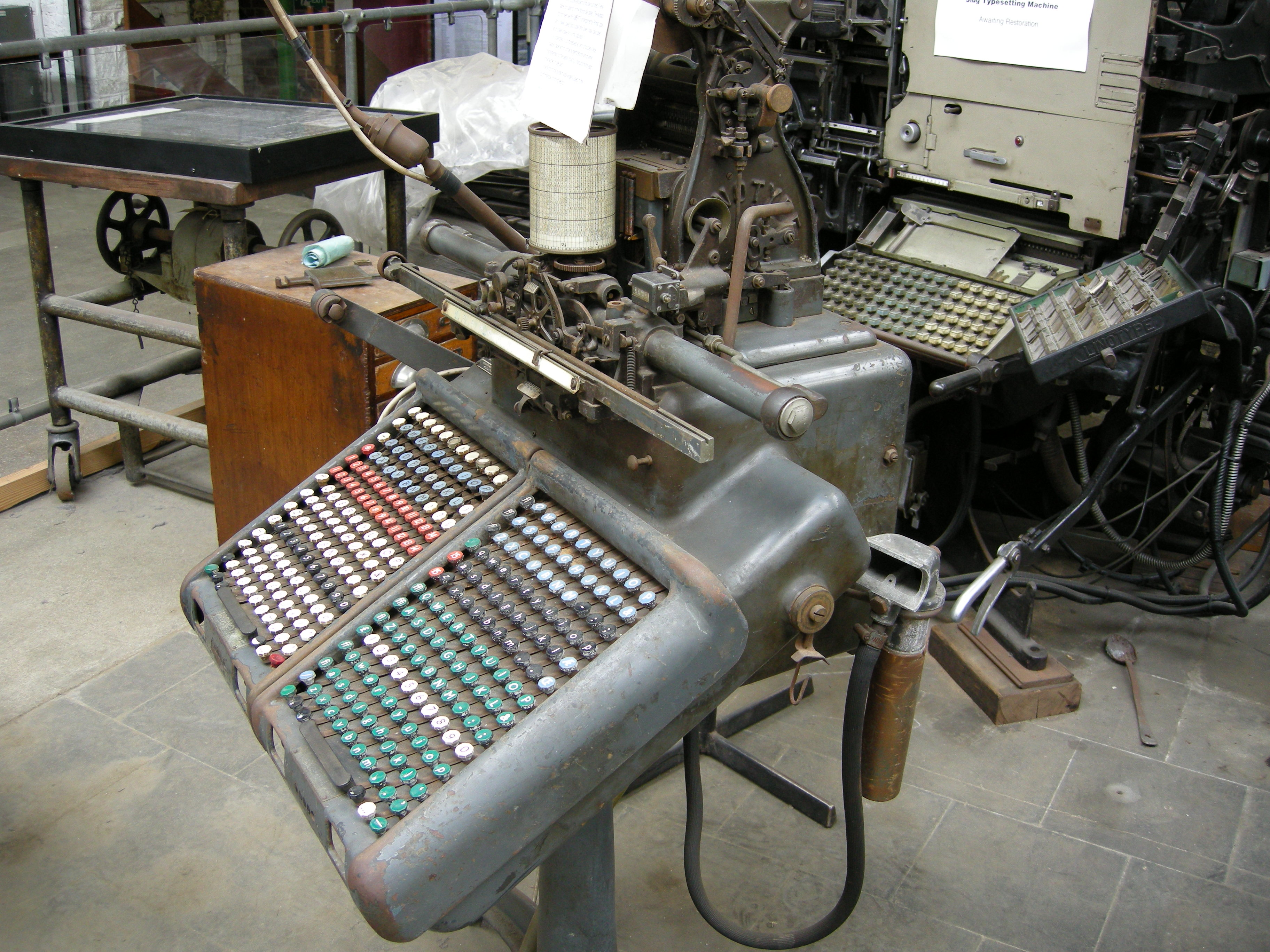 Keyboard for creating type from molten lead in the printing gallery at Bradford Industrial Museum, Bradford, West Yorkshire, England. 53.48'.40".N; 1.43'.16".W. One of the last newspapers to use this machine in the UK was the Faversham News until the early 1980s. This machine filled the air with lead fumes, and it was noisy.